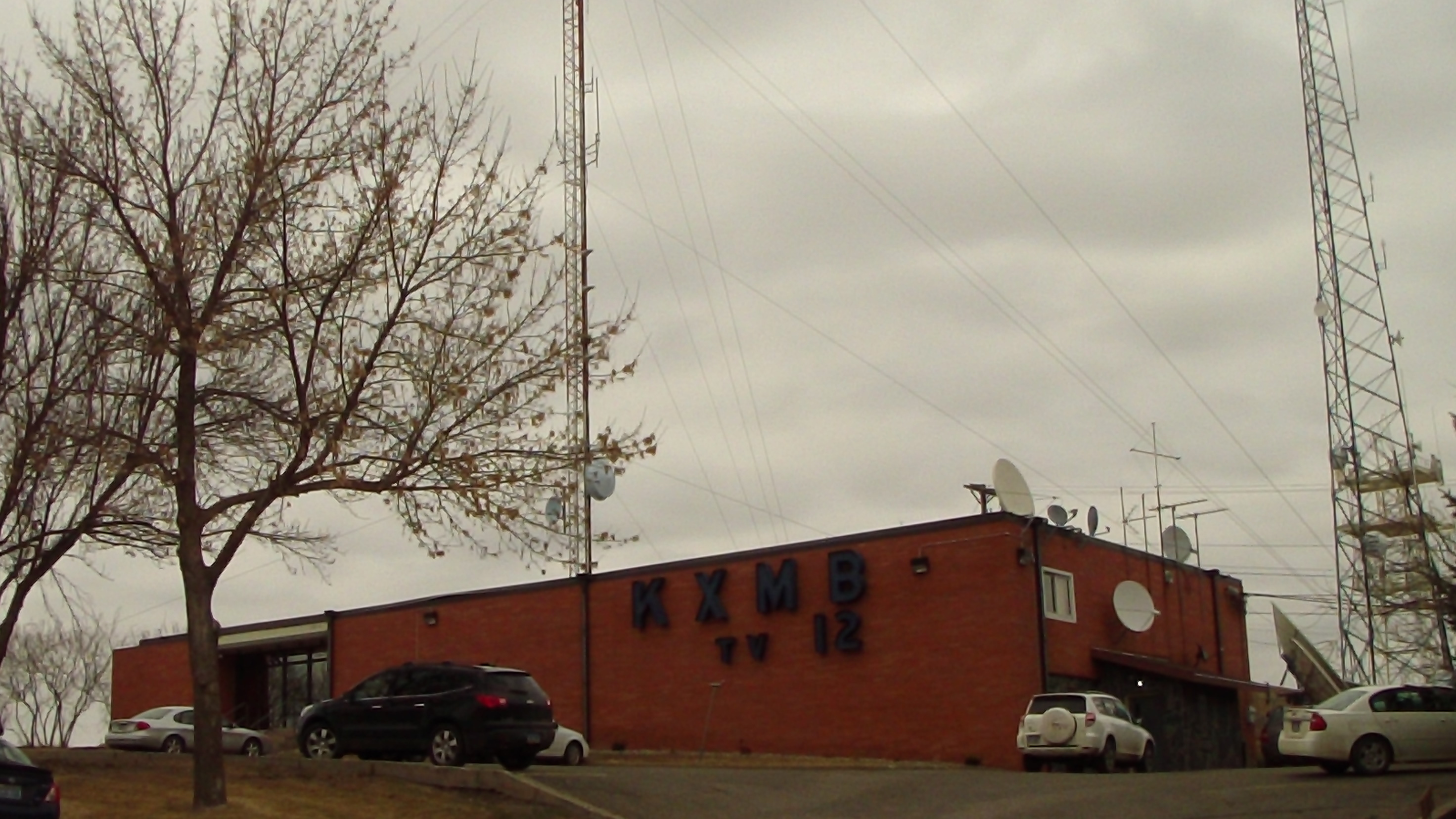 The studio of KXMB-TV in Bismarck, North Dakota